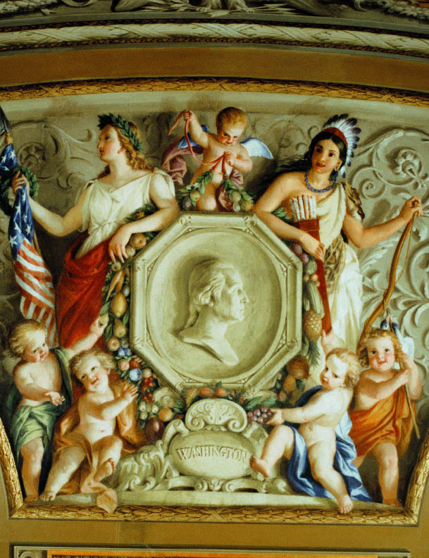 A fresco of an Indian Princess and Columbia honoring George Washington. This was painted by Constantino Brumidi (1805-1880) sometime between 1855 and 1856 in room H-144 of the US Capitol Building (currently the hearing room for the House Committee on Appropriations), during a time when he was a government employee hired because of his artistic skills..